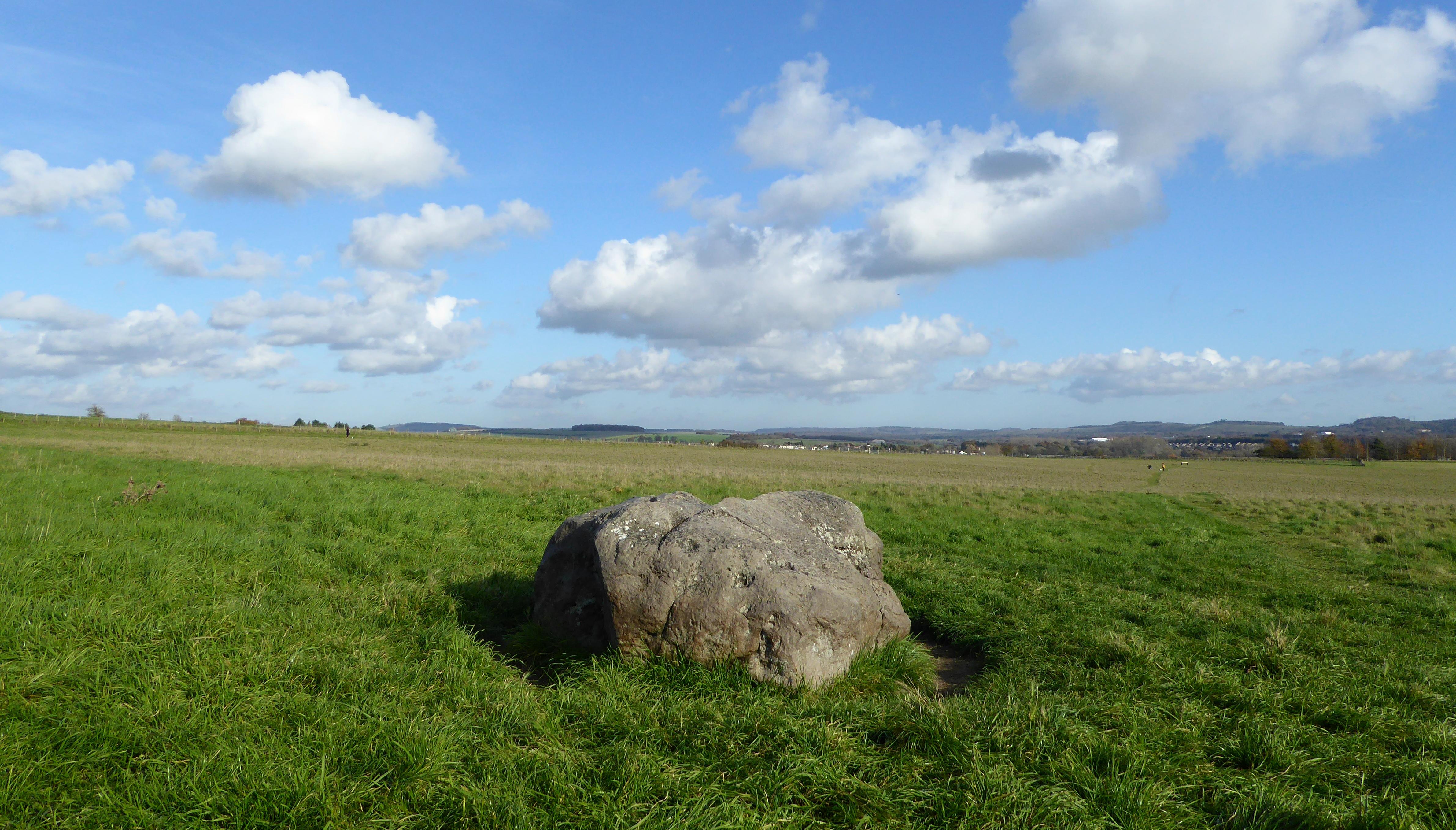 The Cuckoo Stone near Durrington in Wiltshire. Image facing towards nearby Woodhenge, in an eastern to north-easterly direction.